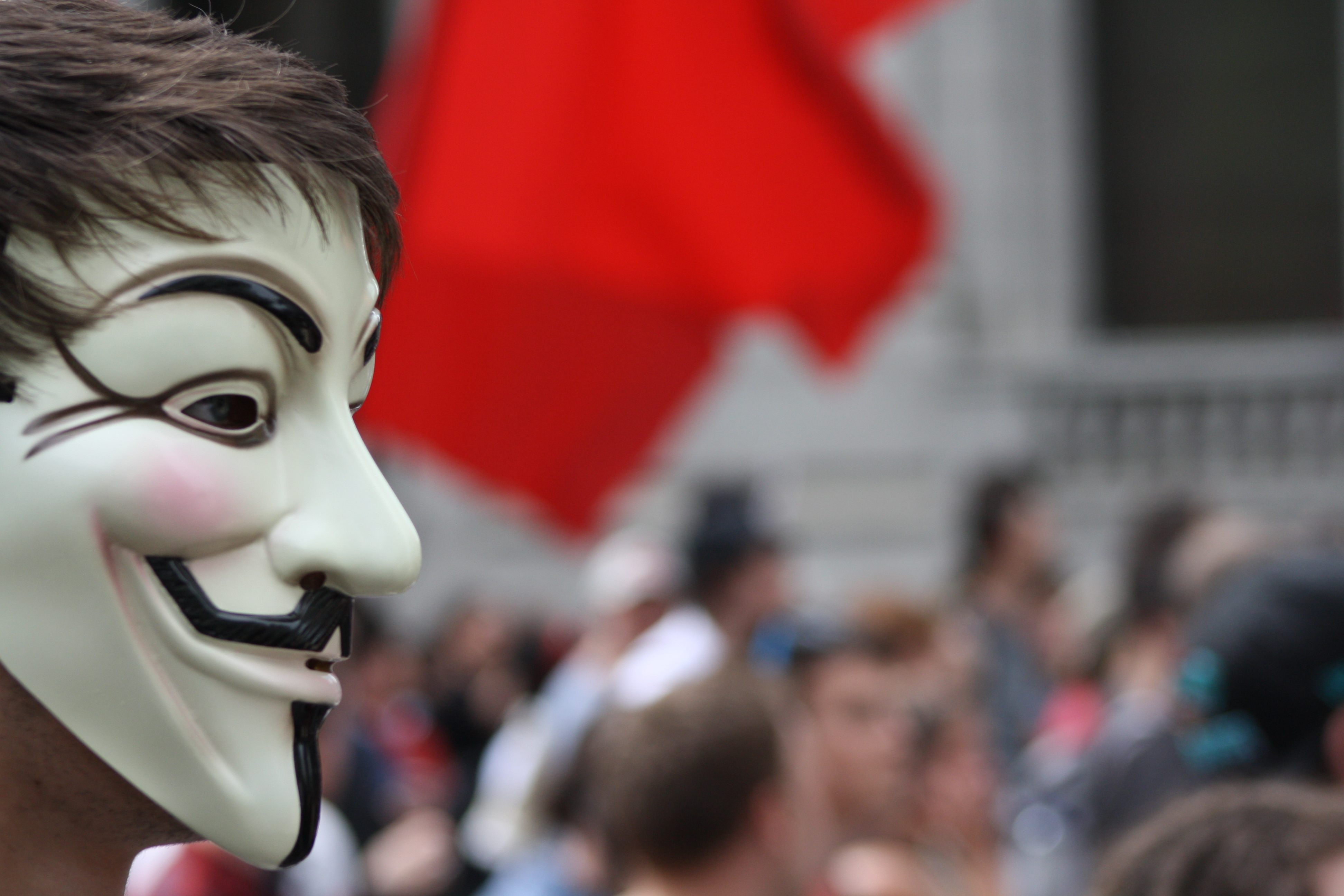 Demonstrator wearing a Guy Fawkes mask during the May 22, 2012 national demonstration, part of the 2012 Quebec student protests.